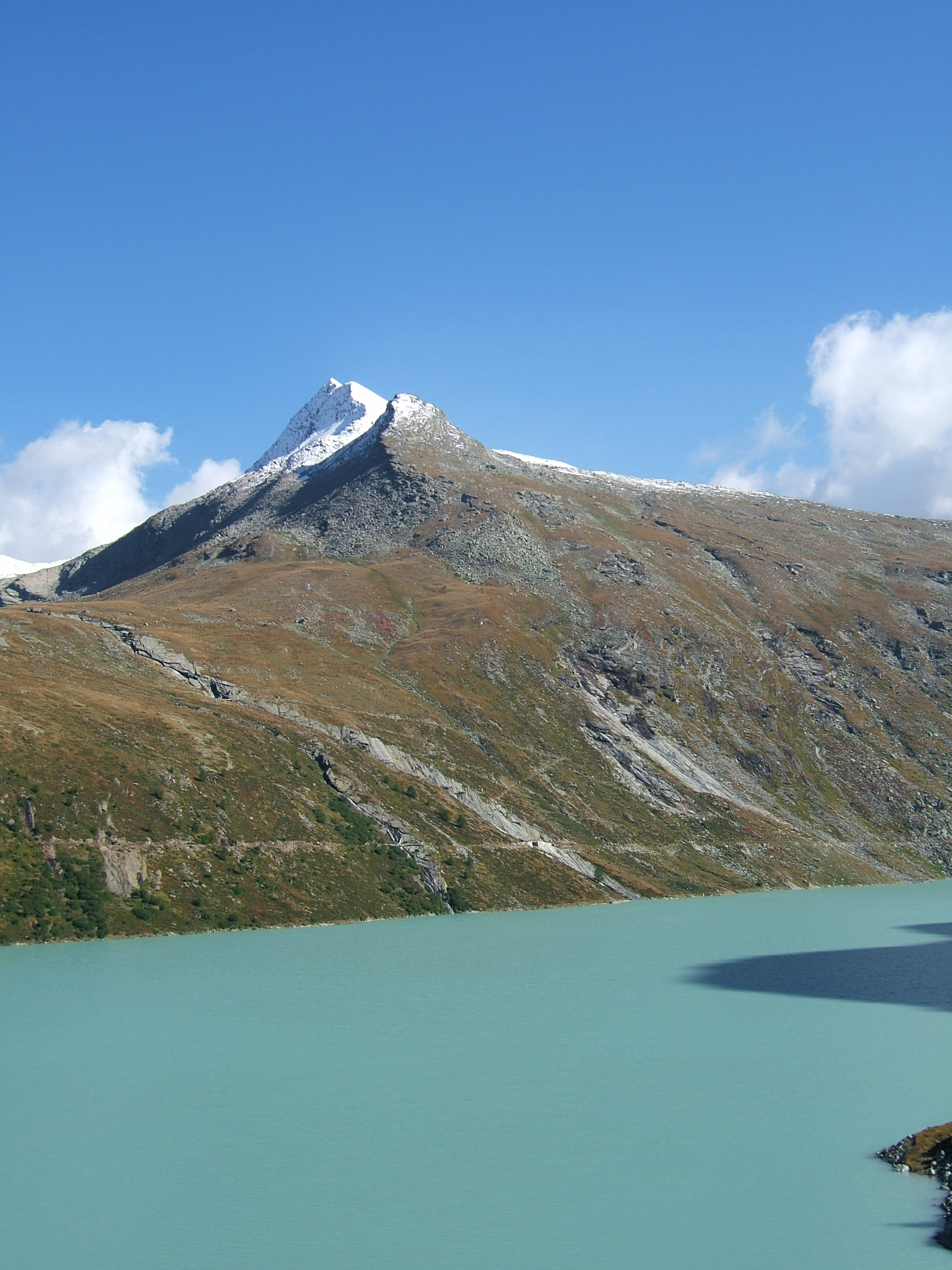 Spechhorn (Pizzo di Antigine) from northwest, from west bank of Mattmarksee